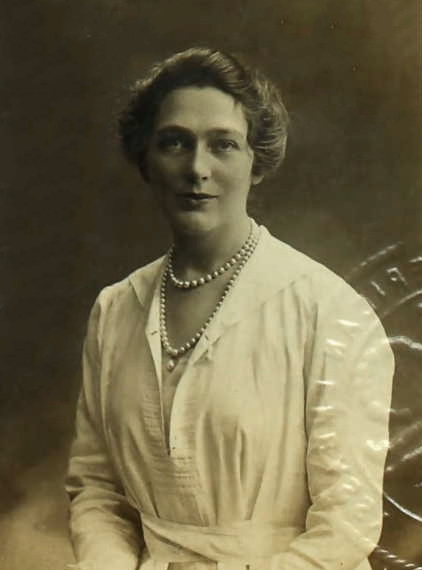 Linda Lee Thomas passport photo